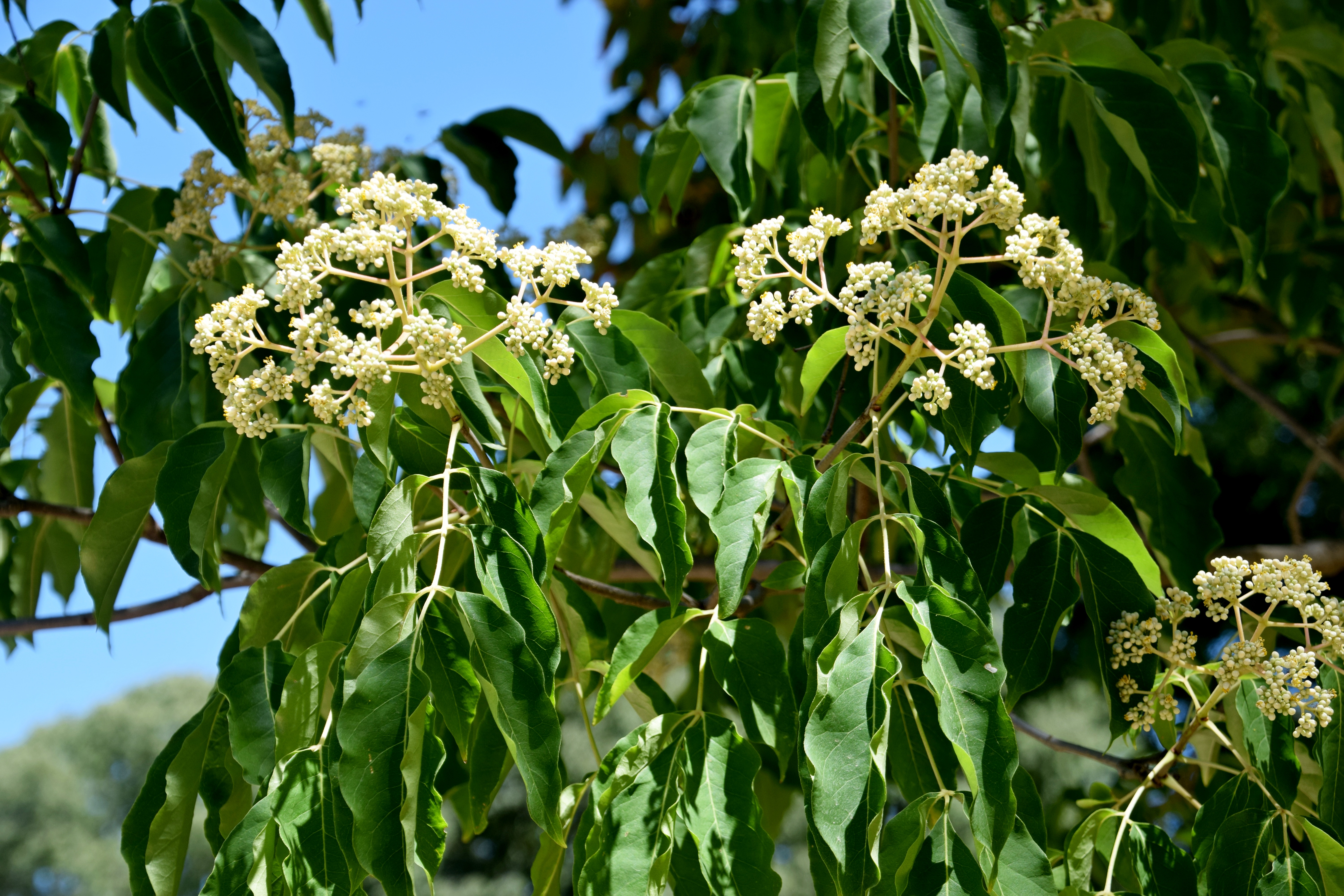 Bee-bee tree in Jardin des plantes de Montpellier